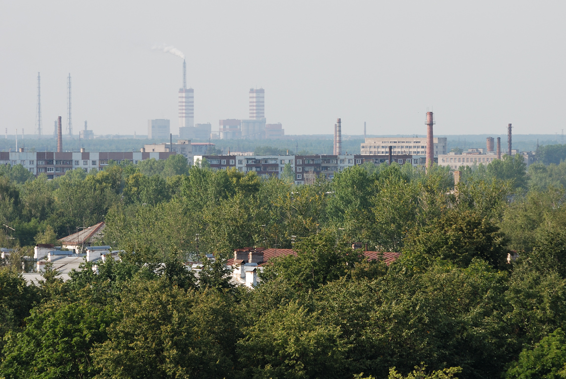 Panorama of Veliky Novgorod. At the remote background: the chimneys of the factory "Acron".